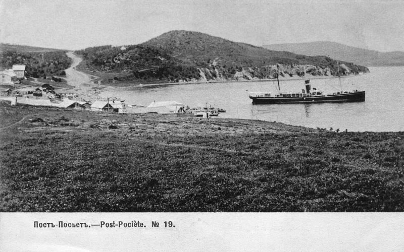 Post Posyet and Bay. 1900s Postcard